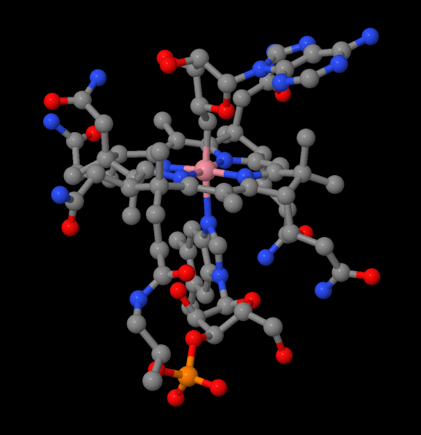 Cobalamin - Created from JMol using CCDC 713291